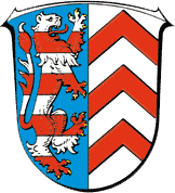 Coat of Arms of Eppstein